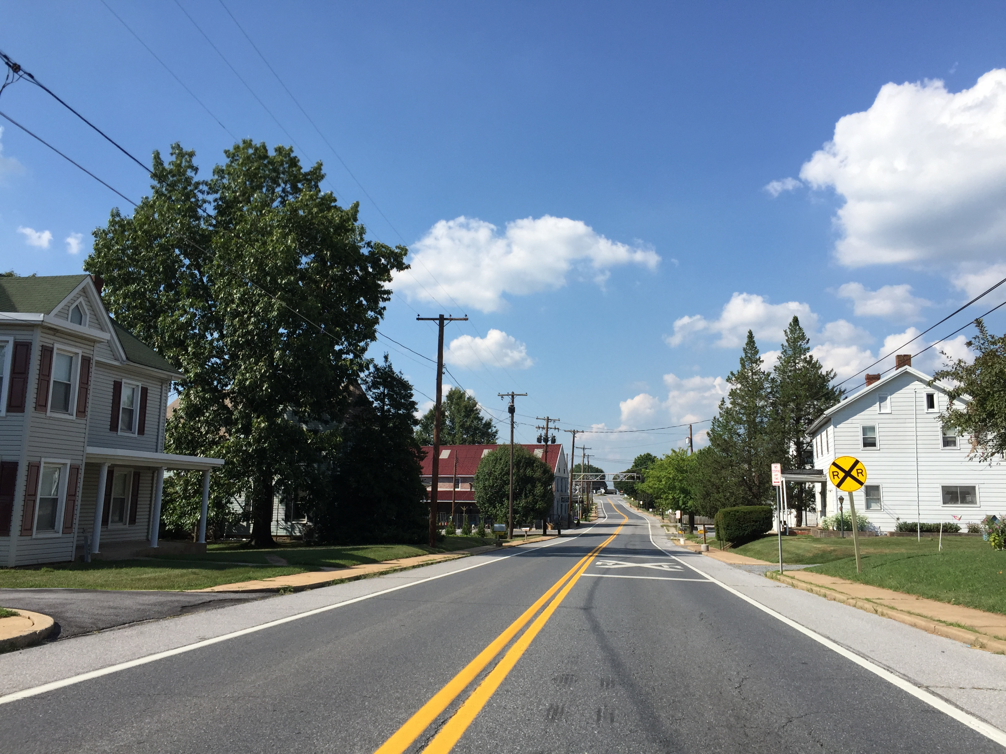 View north along Maryland State Route 194 (Francis Scott Key Highway) between Y Road and Maryland State Route 77 (Middleburg Road) in Keymar, Carroll County, Maryland